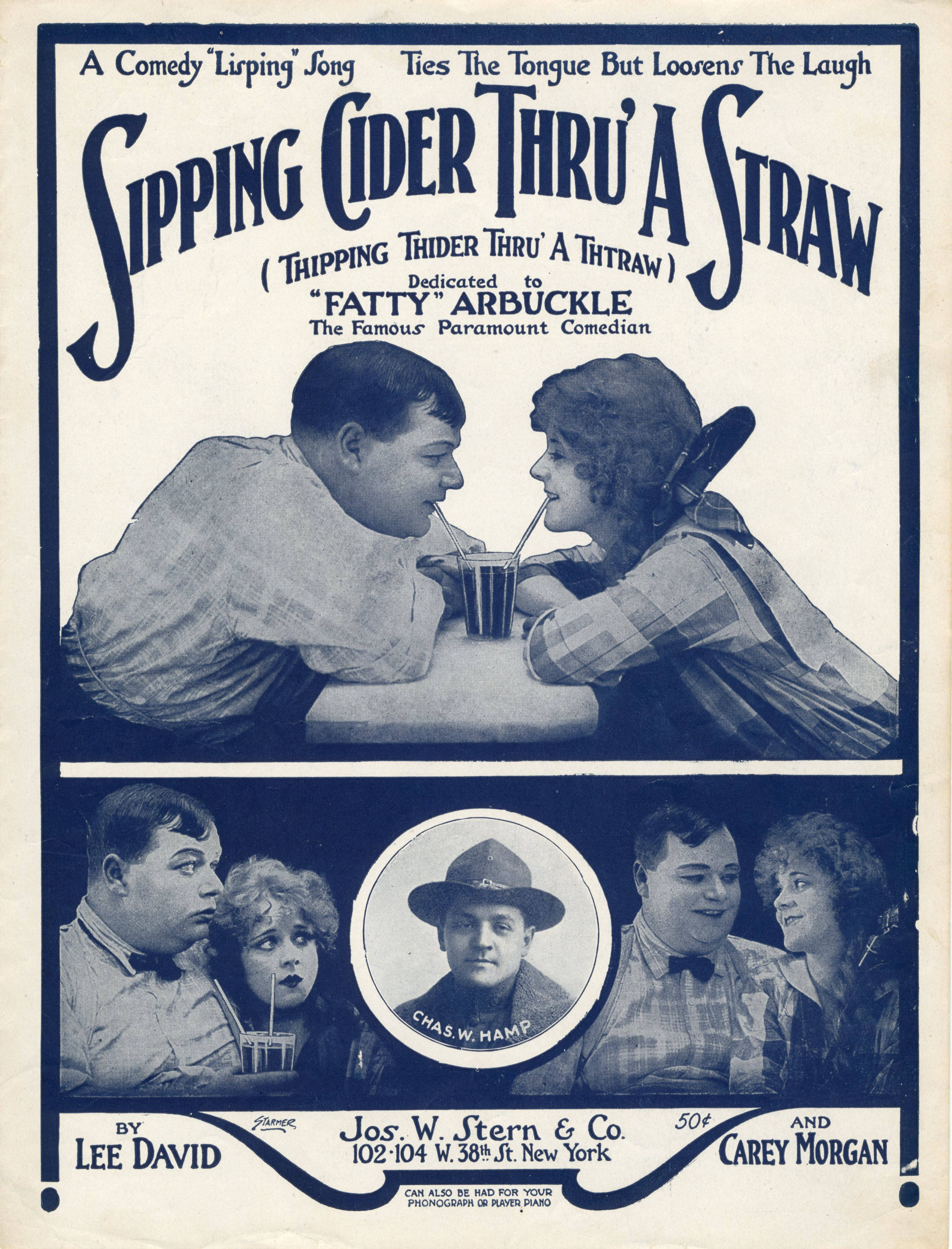 Sheet music cover: "Sipping Cider Thru' A Straw" ("Thipping Thider Thru' A Thtraw"). by Lee David and Cary Morgan. 1 vocal score (3 p.) ; 31 cm. Illustrated cover with images of Roscoe "Fatty" Arbuckle and an unidentifed actress and of Chas. W. Hamp / Starmer.